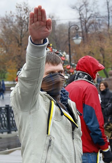 Neo-Nazism in Russia: The photograph was taken at a anti-homosexual demonstration in Moscow in October 2010.